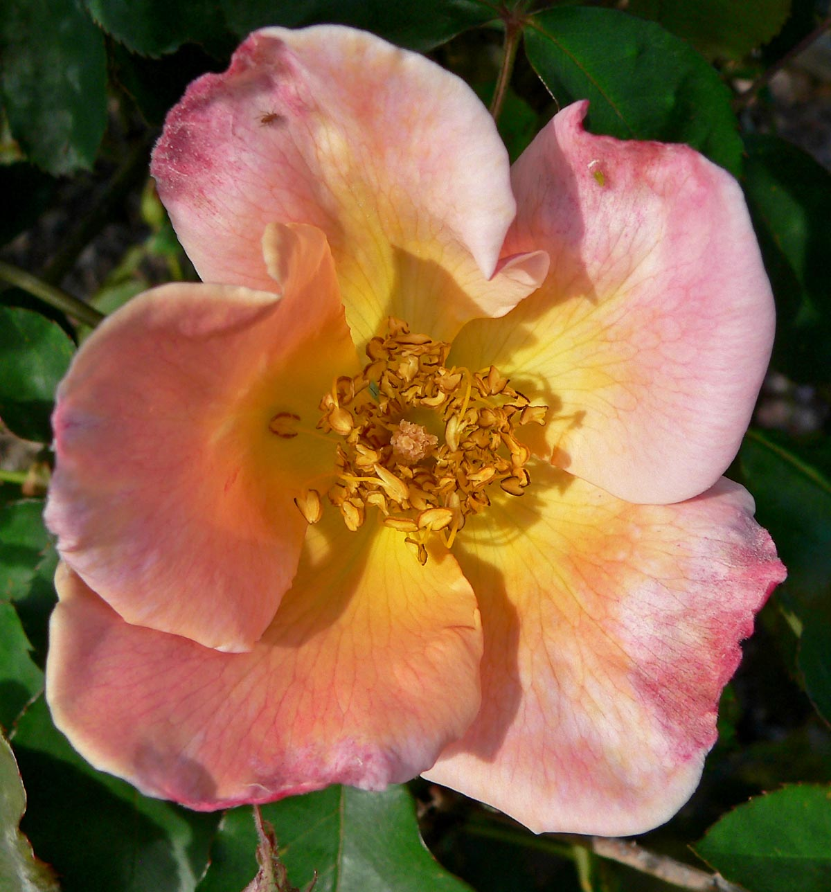 Photo of Rosa 'Irish Elegance' at the San Jose Heritage Rose Garden